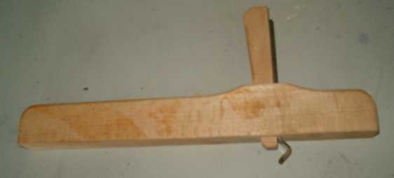 Krøshøvl; special tool for carving the groove for the bottom of a barrel; this model for school use, Dansk Skolesløjd, grendåsehøvl